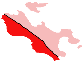 Map of Praslin Island, Seychelles showing Grand Anse Praslin District; created with the GIMP. Made by User:Acntx.